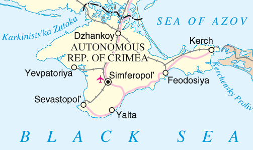 Map of Crimea, Ukraine.